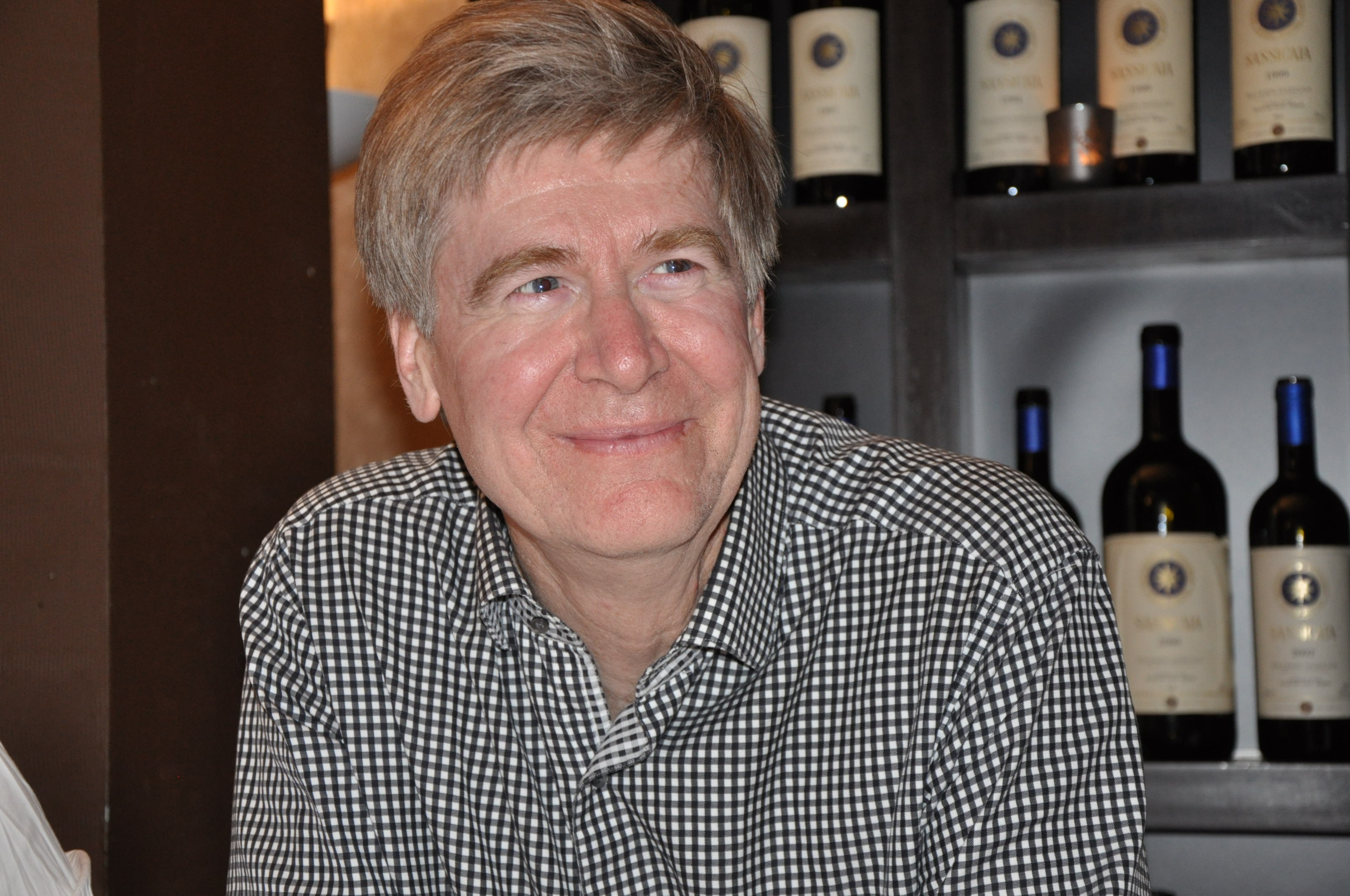 Ken Strauss, 2018